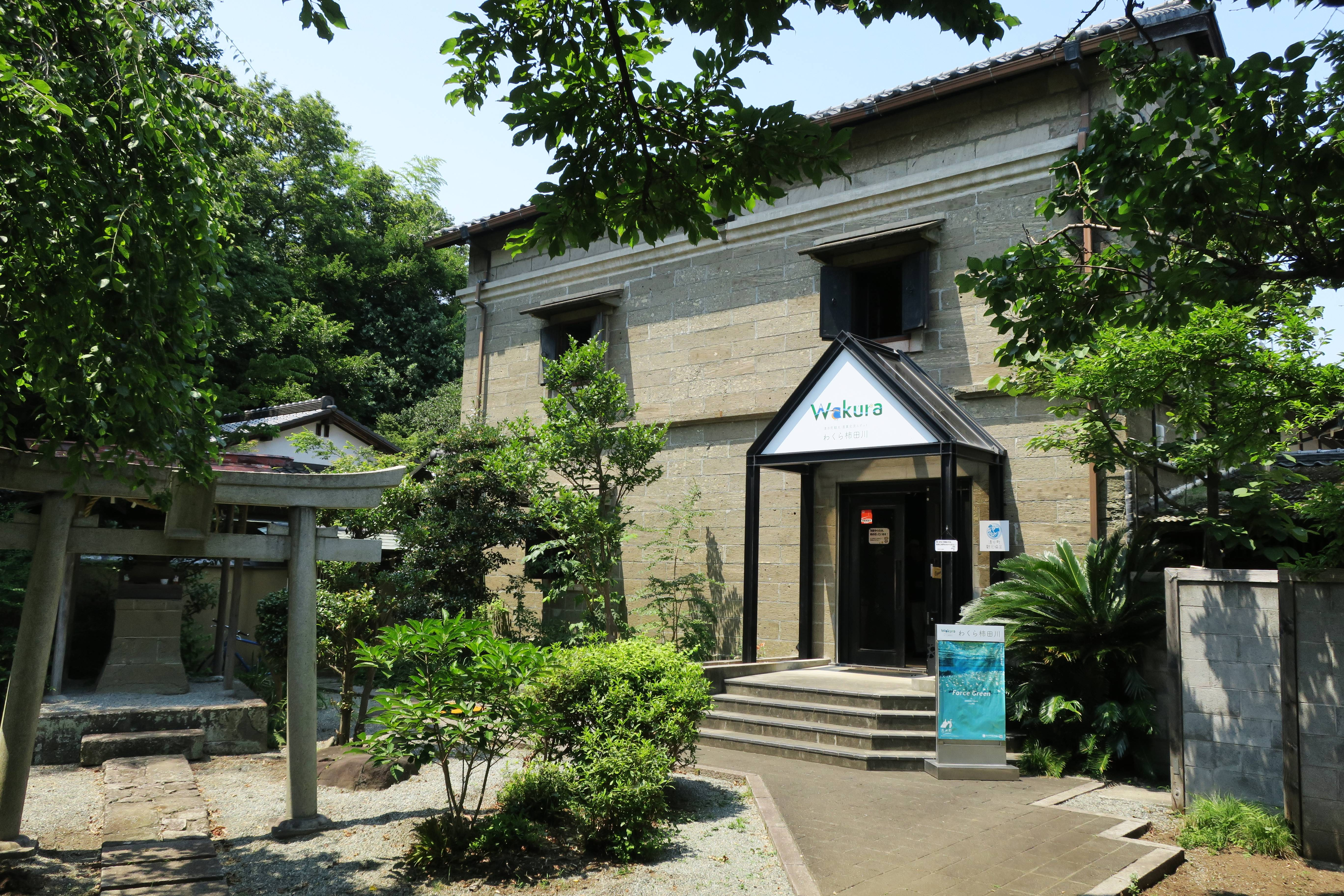 Wakura Kakitagawa (Shimizu, Shizuoka).